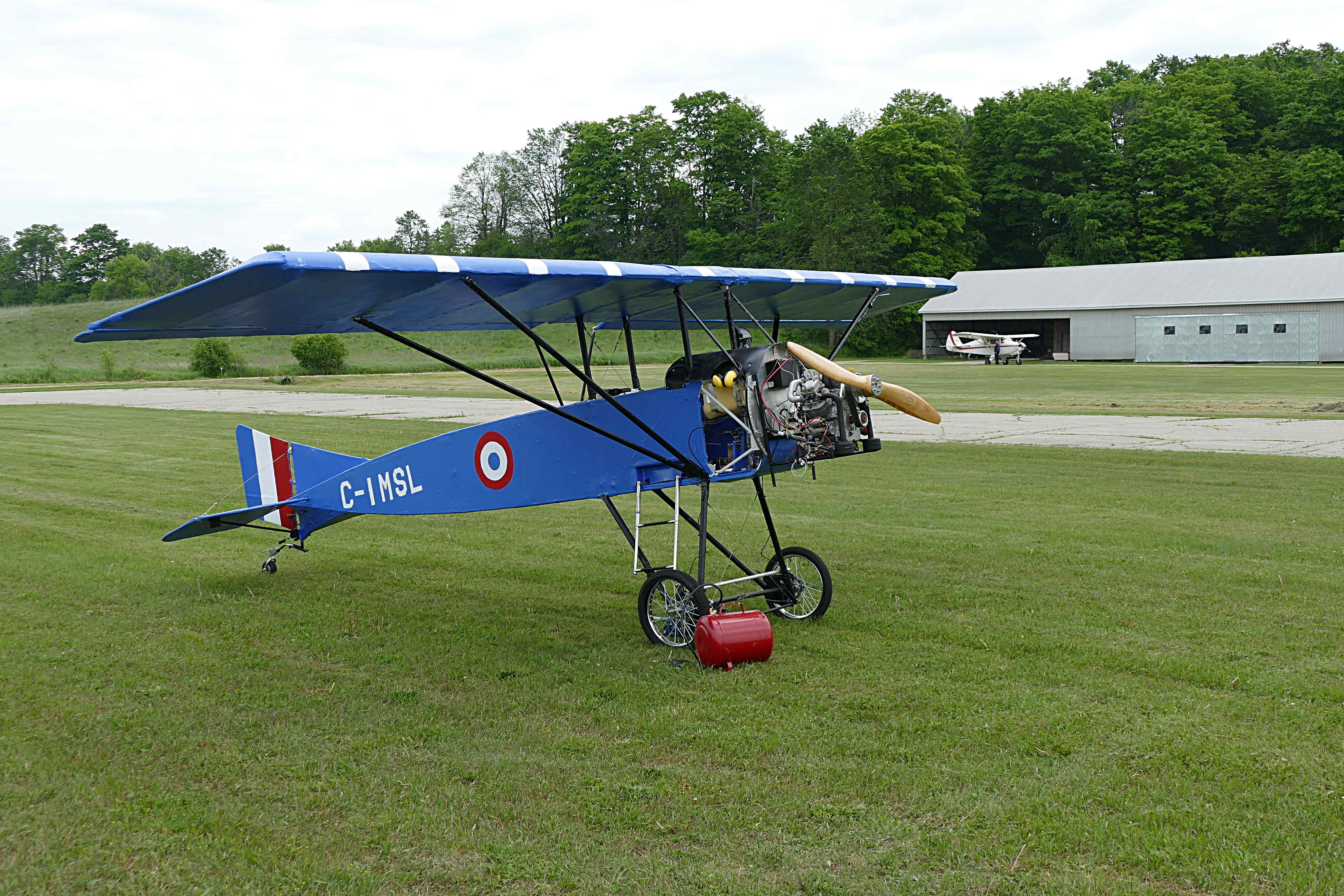 A twenty-first century replica of the Morane-Saulnier L, by Airdrome Aeroplanes. Photographed at the Guelph Airpark, Guelph, Ontario, Canada, near runway 23.